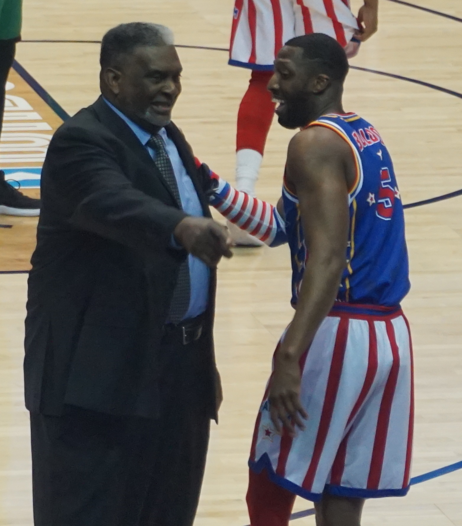 Louis "Sweet Lou" Dunbar and Chandler "Bulldog" Mack during the Washington Generals vs. Harlem Globetrotters basketball game at College Park Center in Arlington, Texas (United States).